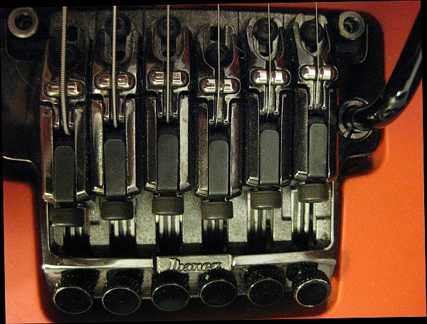 guitar bridge intonation setup